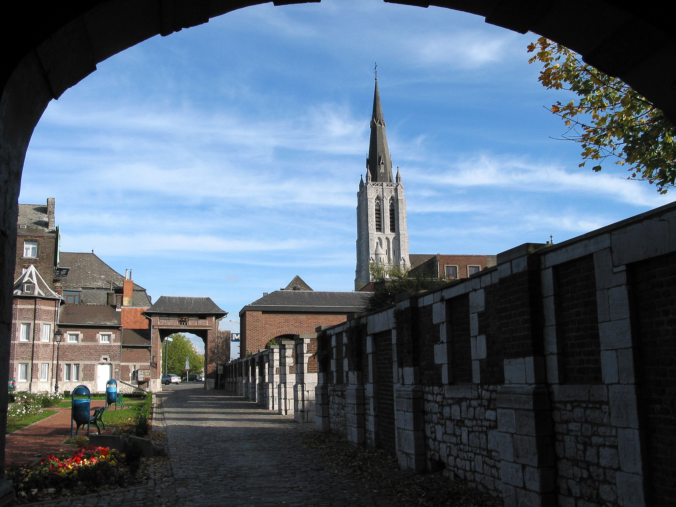 Marchienne-au-Pont (Belgium), the inside courtyard of the de Cartier Castle and the church.